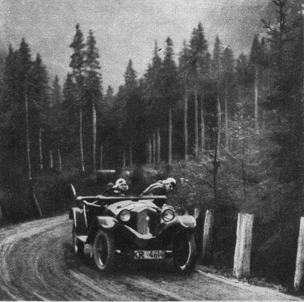 Tatra Rally, Poland, August 1927. Unidentified Tatra of Mrs. Hanka Schielowa.